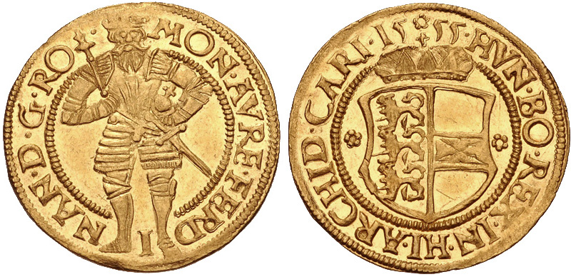 Austria, Holy Roman Empire. Ferdinand I. King of the Romans, 1531-1564. AV Dukat (21mm, 3.51 g, 8h). Klagenfurt mint. Dated 1555. MON · AVRE · FERD I NAN · D · G · RO, figure of Ferdinand standing facing, holding scepter, globus cruciger, and sword · HVN · BO · REX · IN · HI · ARCHID · CARI ·, crowned coat-of-arms; rosette to left and right. Friedberg 42. Superb EF.